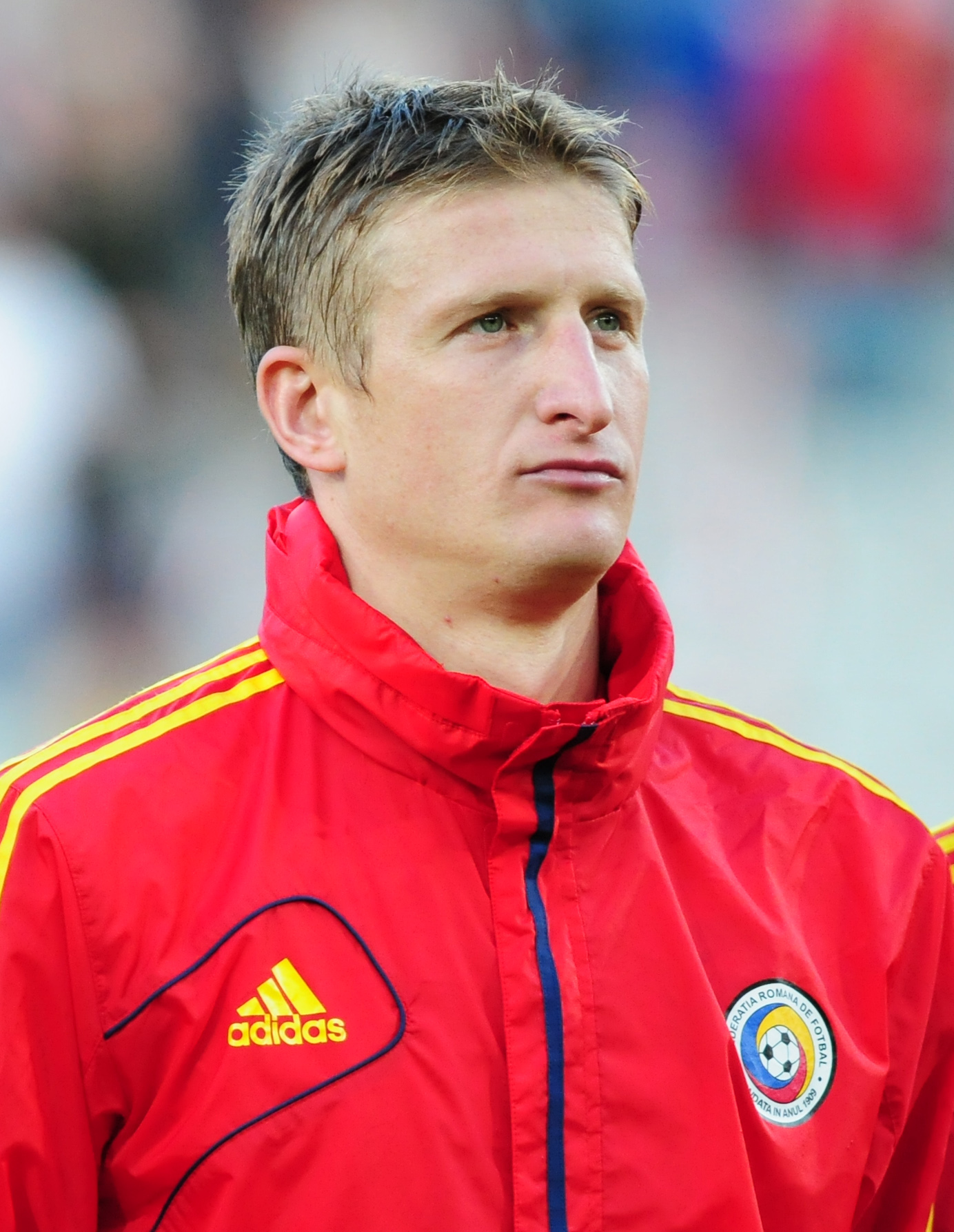 Exhibition game Austria vs. Romania at 5st. June 2012